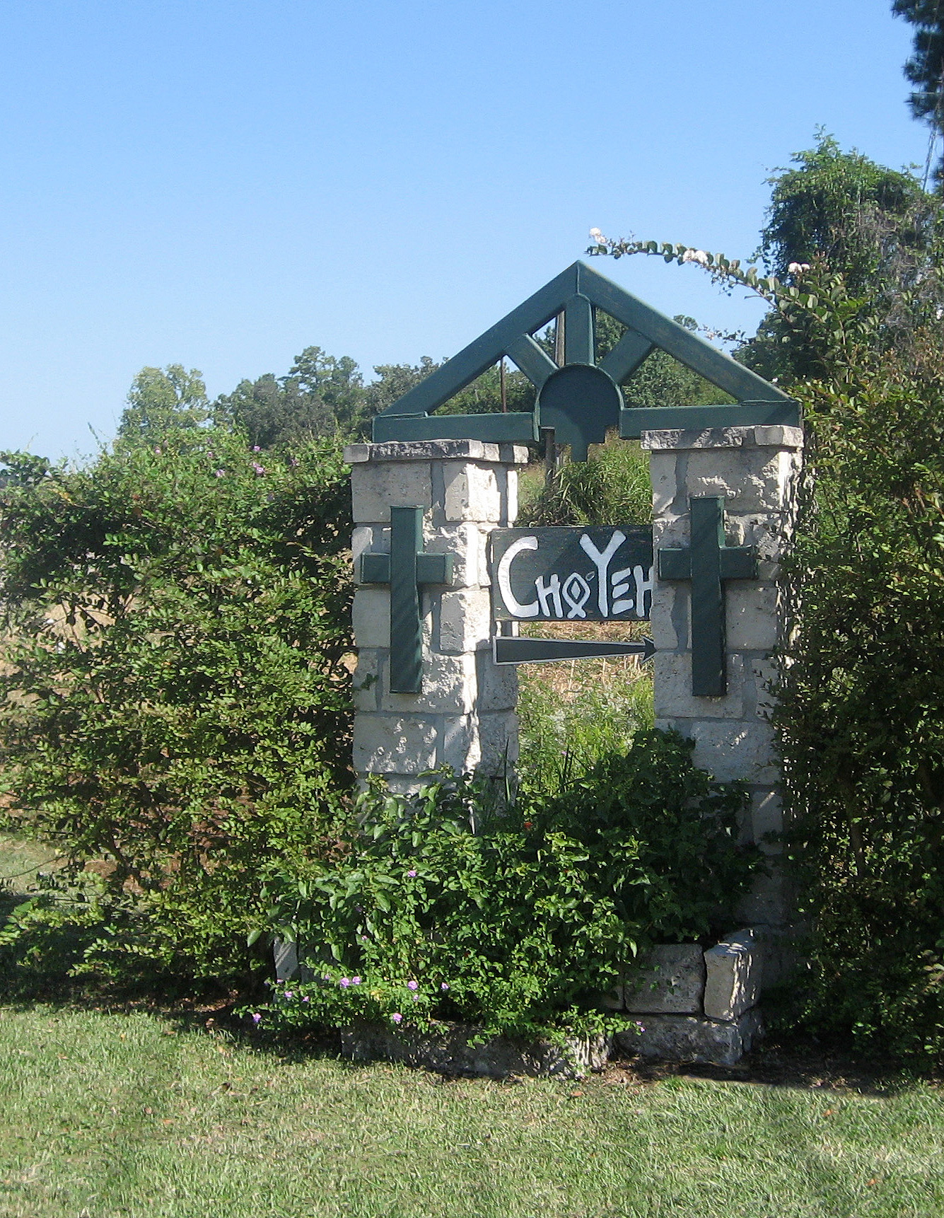 Cho-Yeh is a Christian summer camp and retreat center near Livingston, Texas